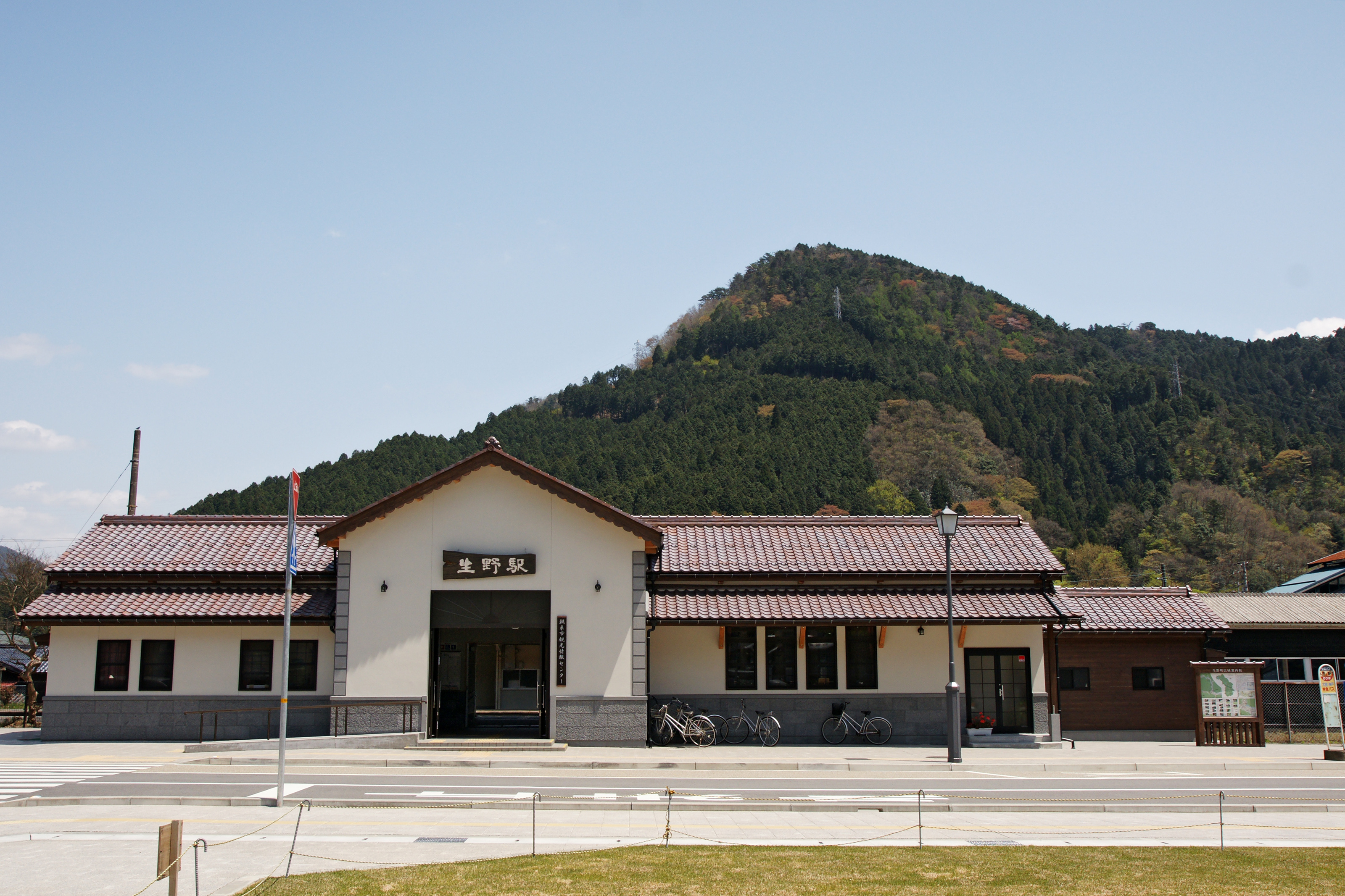 Ikuno Station in Kuchiganaya, Ikuno, Asago, Hyogo prefecture, Japan.